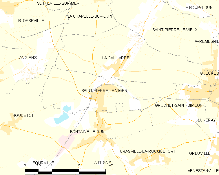 Map of French municipality Saint-Pierre-le-Viger